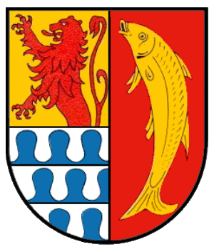 Coat of arms of Haagen in Lörrach